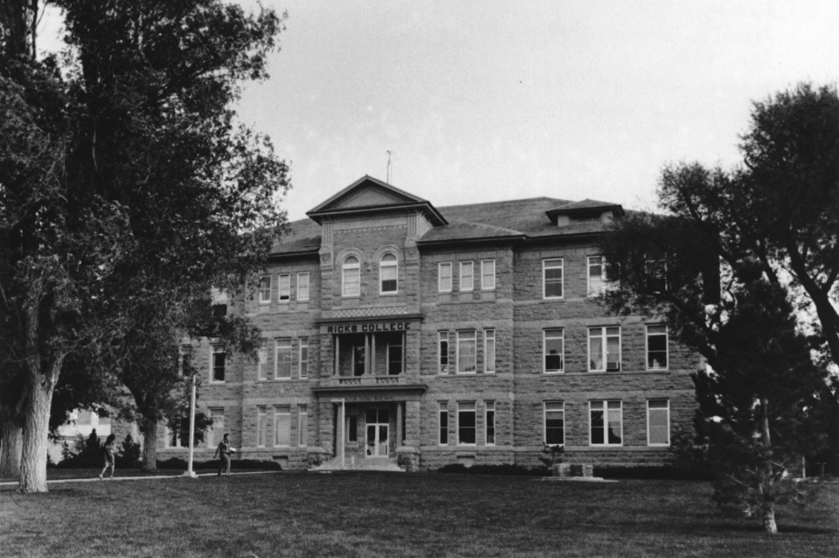 The historic Jacob Spori Building (built 1900–1903), formerly located on the campus of Brigham Young University–Idaho at 100 East 2nd South in Rexburg, Idaho, United States, is listed on the US National Register of Historic Places. The building was destroyed by fire in 2000.